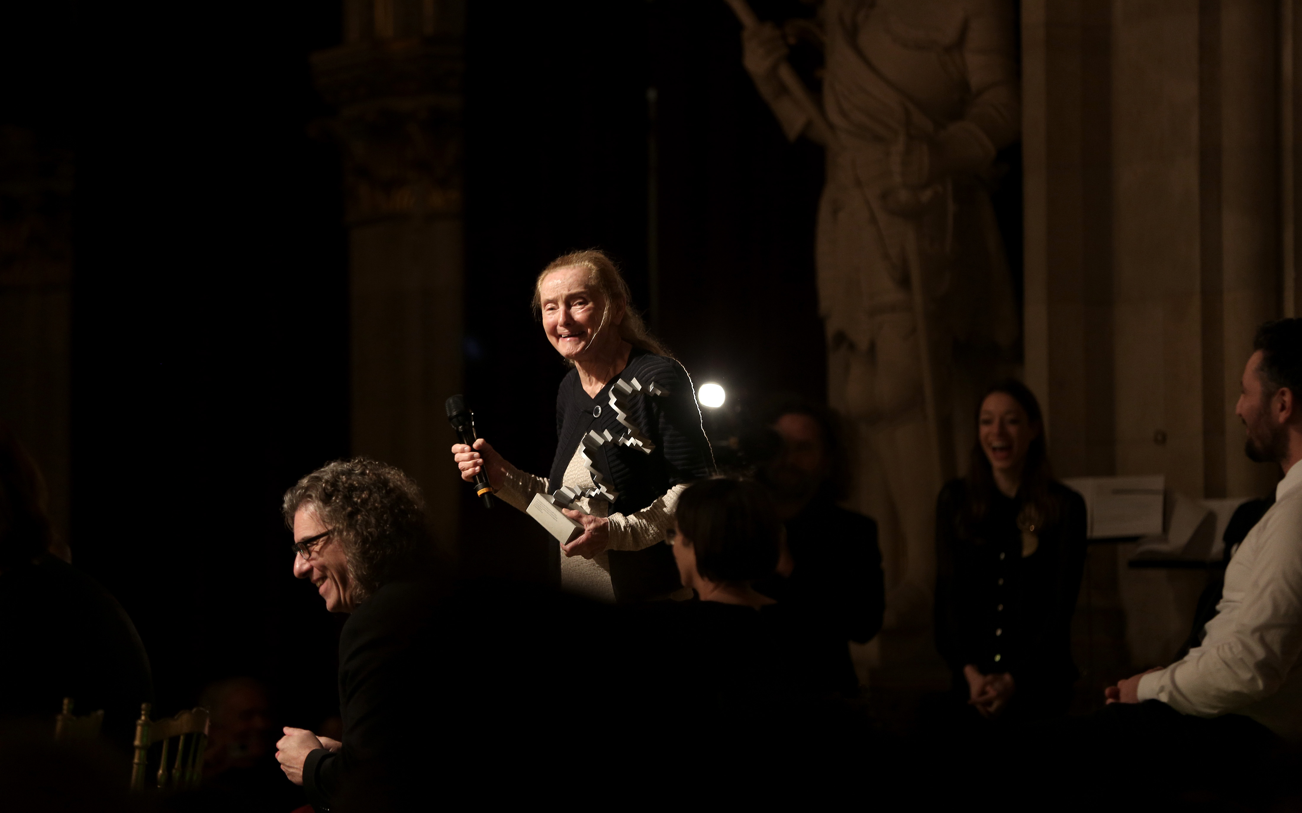 Erni Mangold (best actress in Der letzte Tanz) at the Austrian Film Awards 2015 at Rathaus, Vienna,Austria.